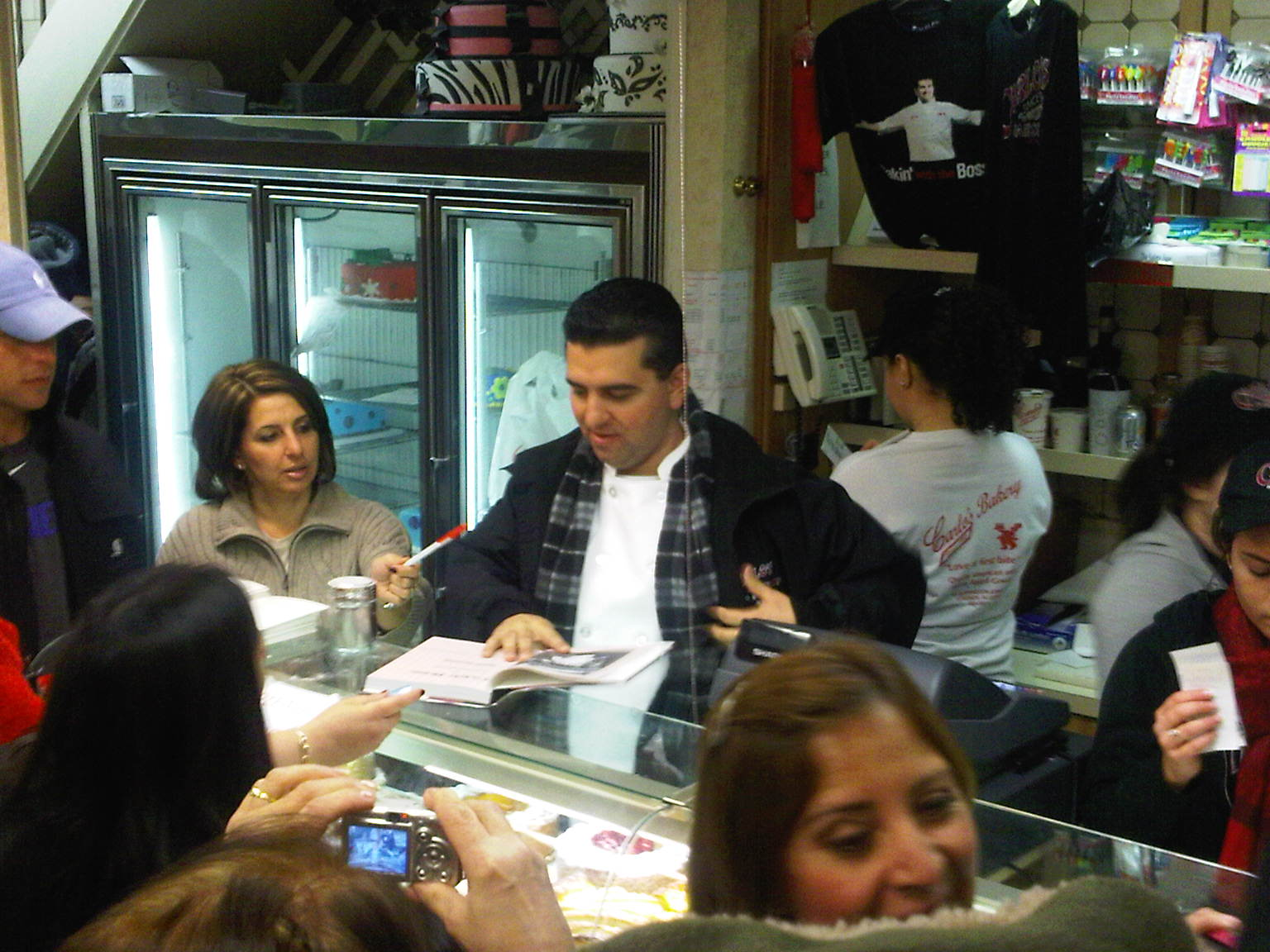 Grace (Buddy's sister) and Buddy.